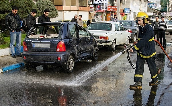 MVM 110 overturned in Rasht - 27 February 2013 main album